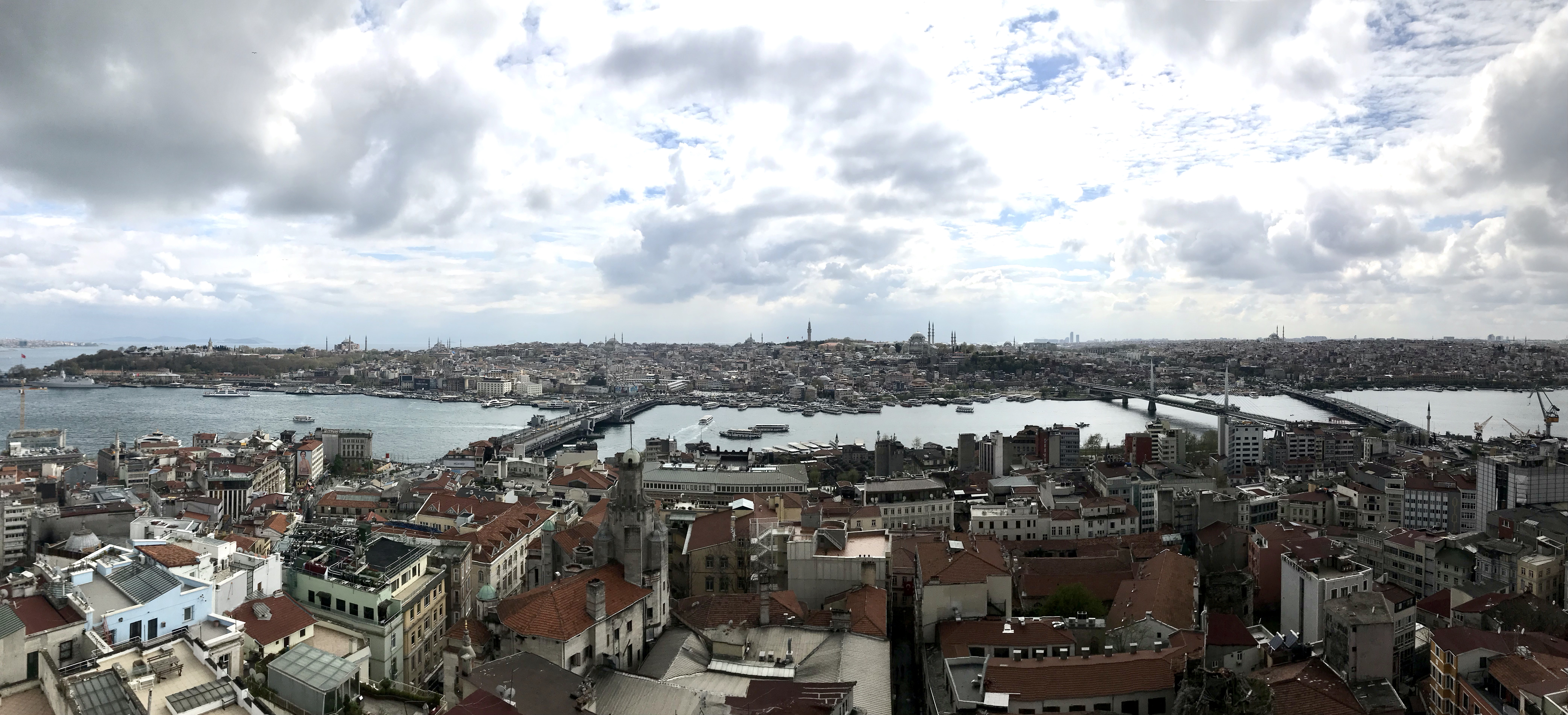 By IPad pro 10.5